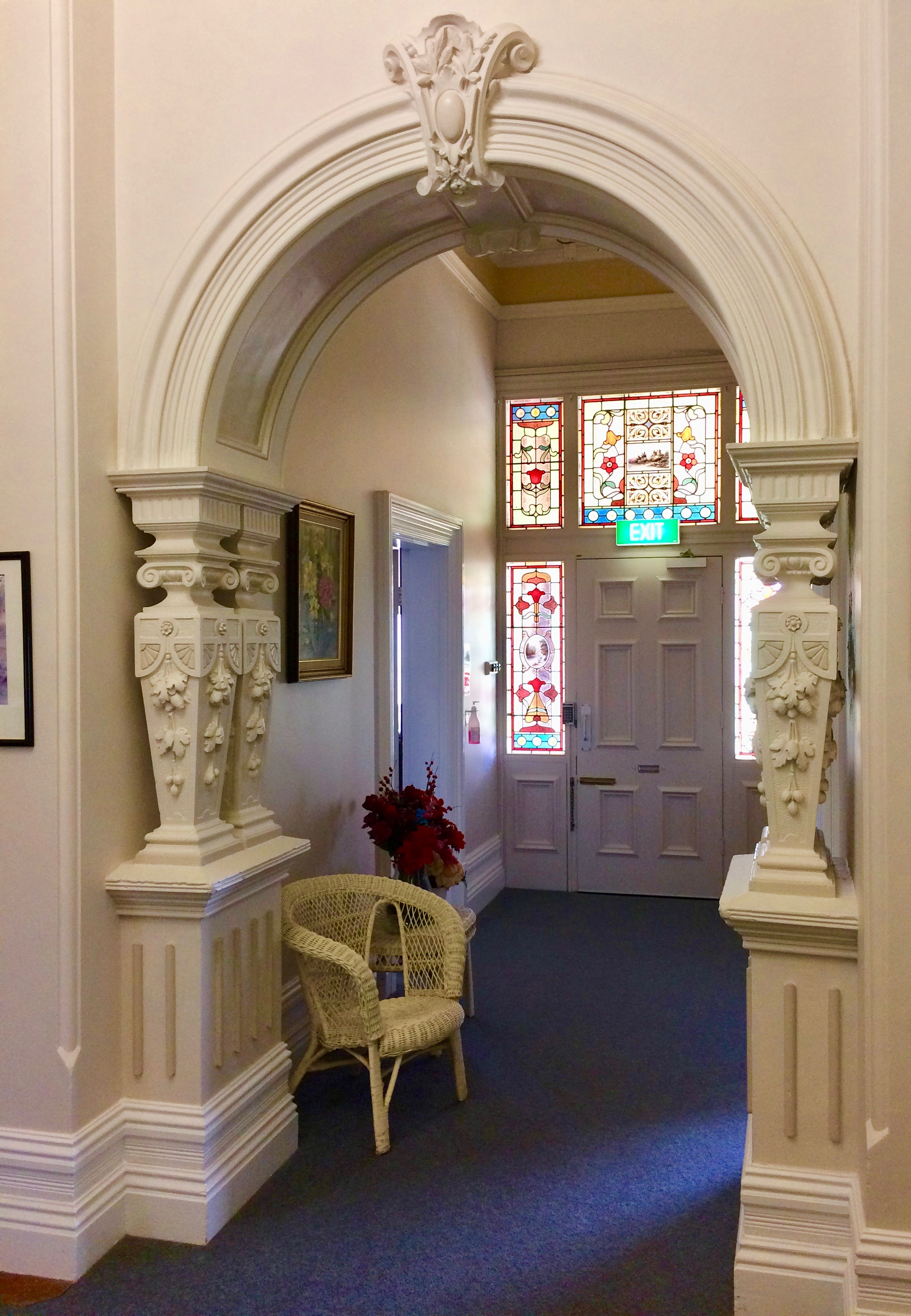 Photo of the entrance hall of "Esleta"/Eyres House, Soldiers Hill